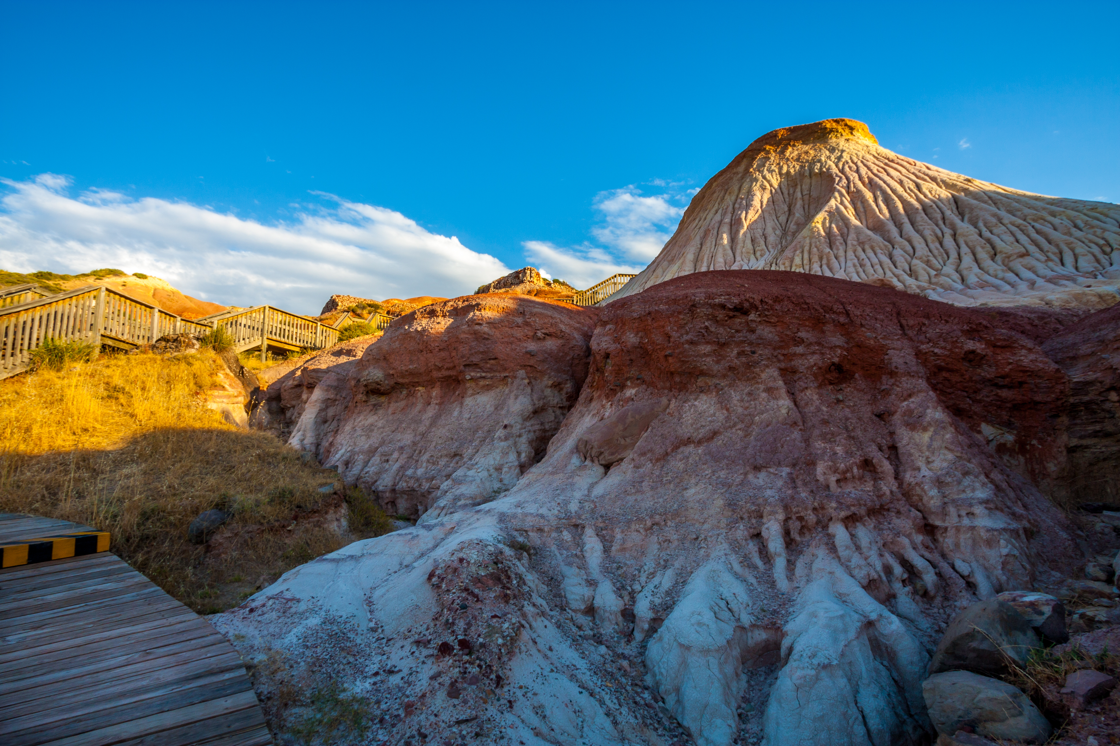 The Sugarloaf is the predominant feature of the Hallett Cove Conservation Park. So named because of its similarity to a hardend pile of sugar. Its distinctive shape has been caused through erosion by wind and rain.